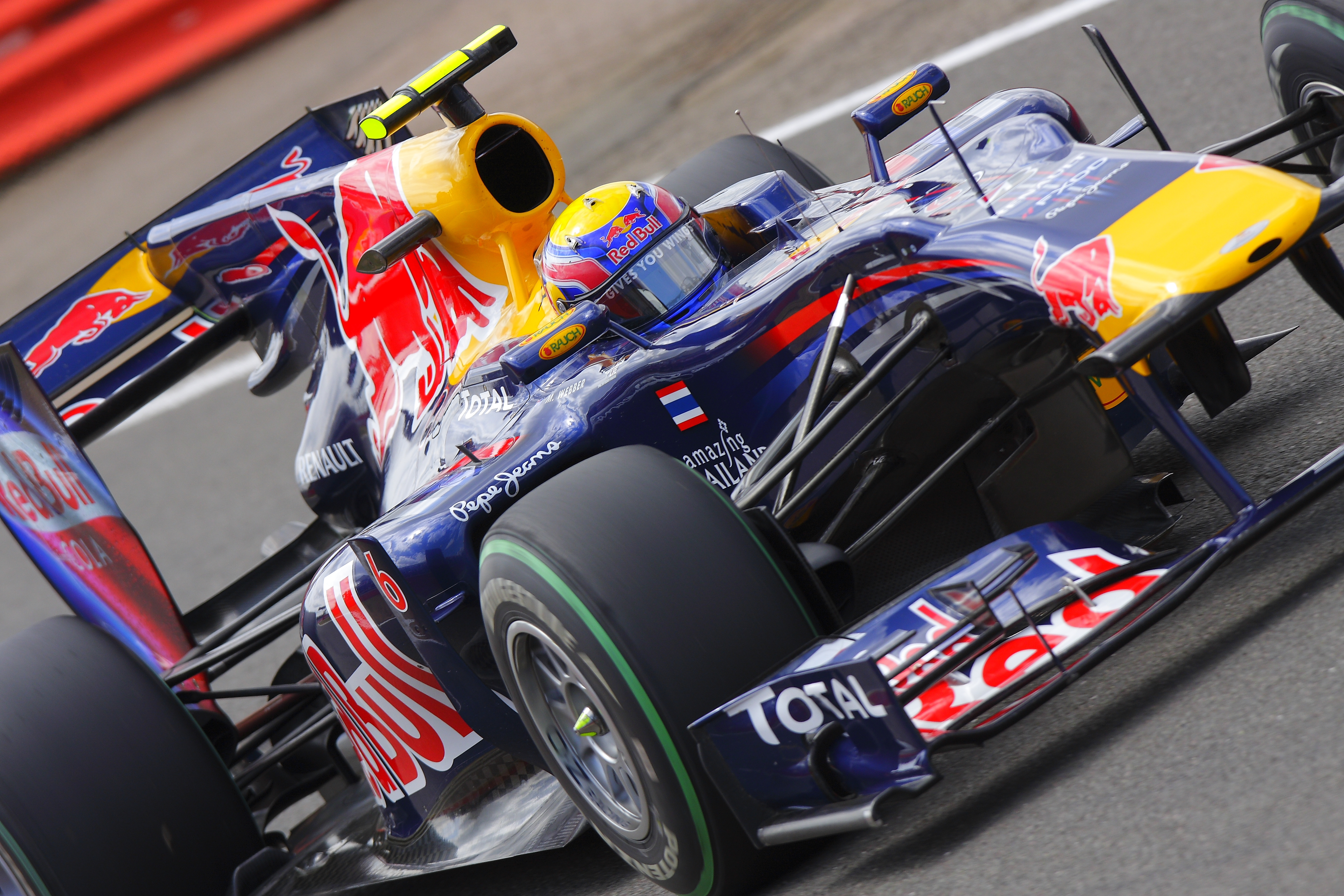 Mark Webber driving for Red Bull Racing at the 2010 British Grand Prix. Photographer: Adrian Hoskins.